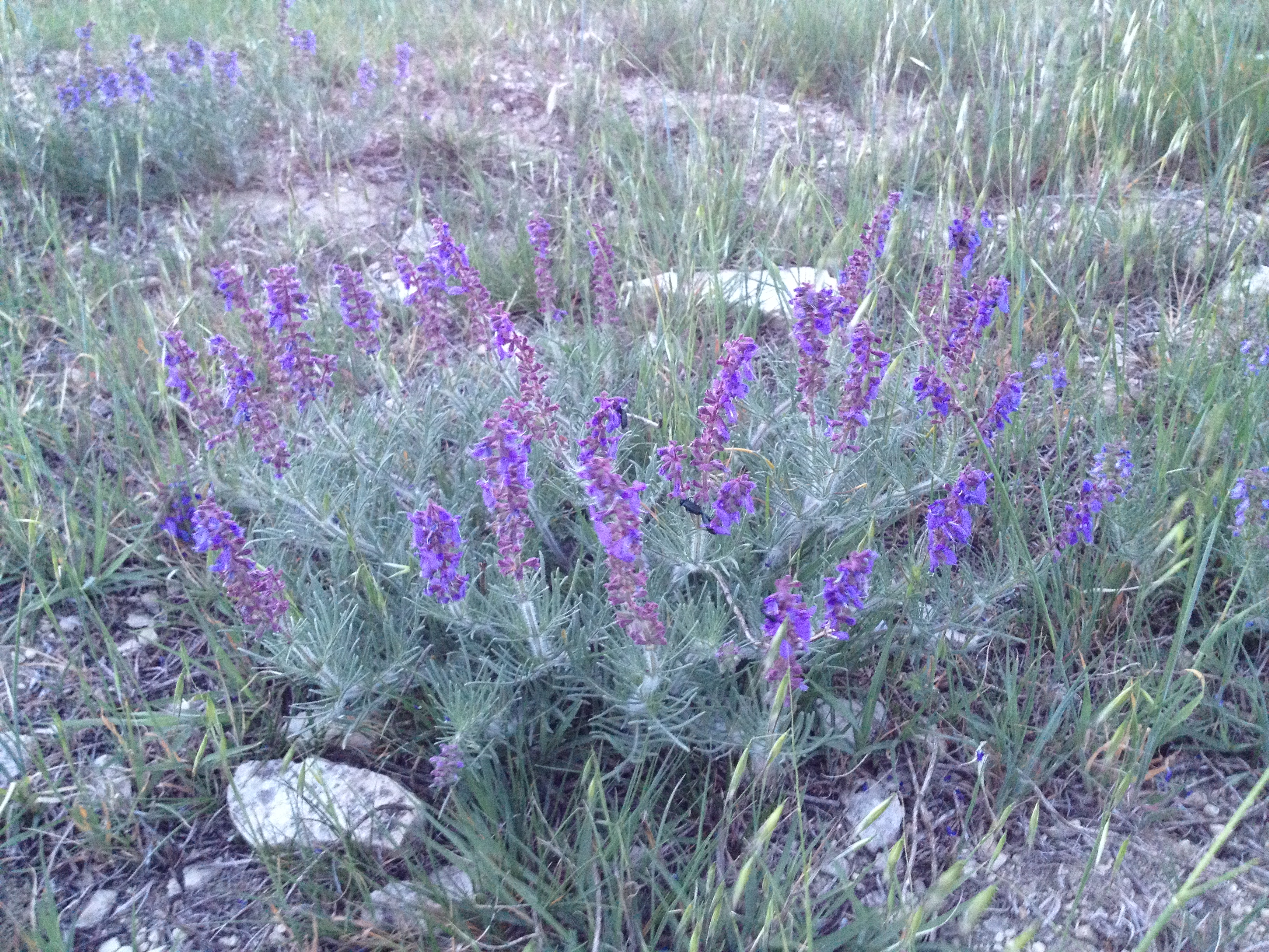 The unusual "feathery" appearance and subtly coloured flowers make Salvia jurisicii sought after among collectors.